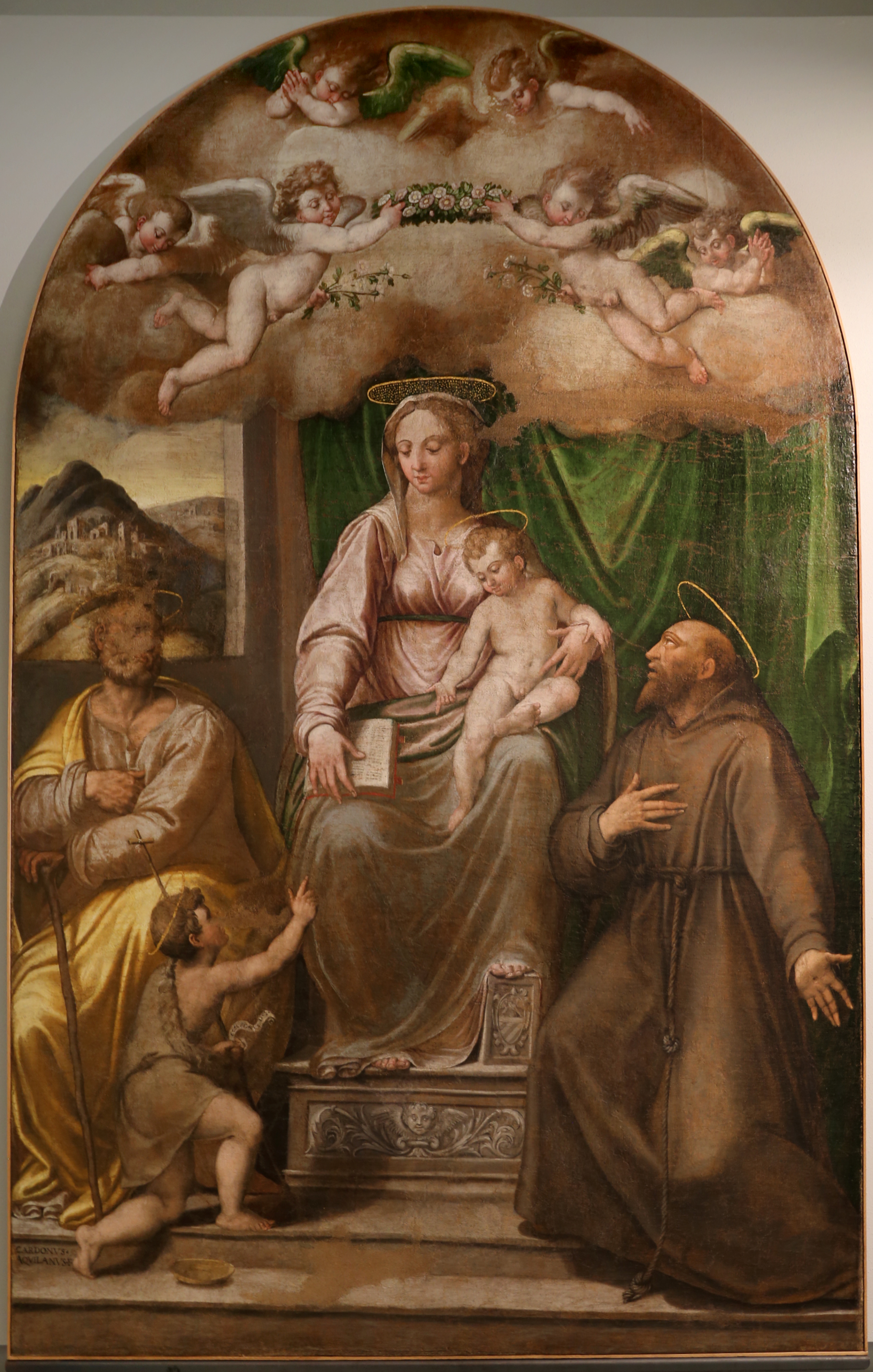 Paintings in the Museo nazionale d'Abruzzo